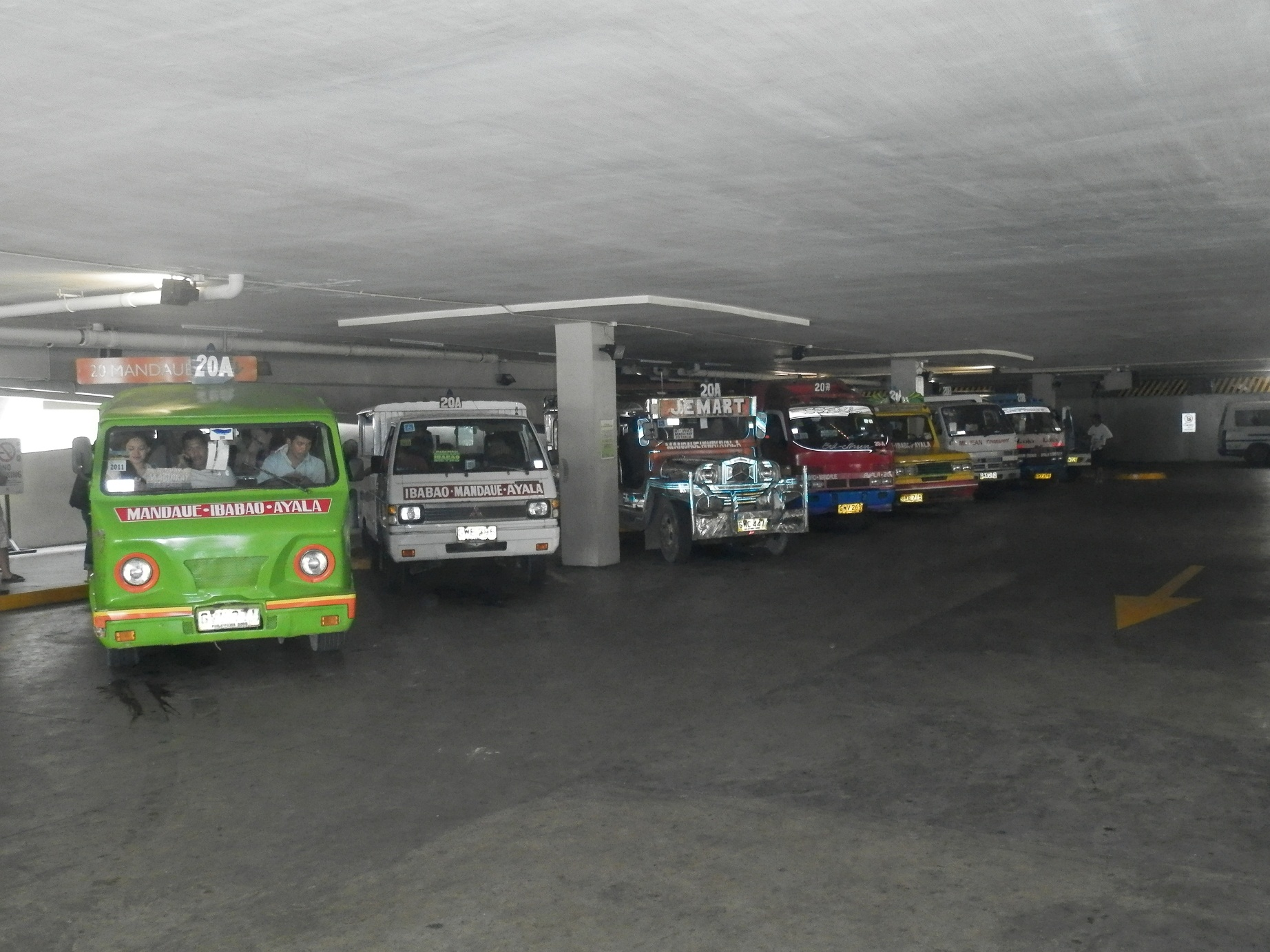 Jeepney terminal in Cebu